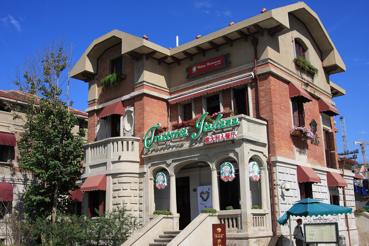 Italian restaurant in Bei'an Dao No. 71–73, Hebei District, Tianjin